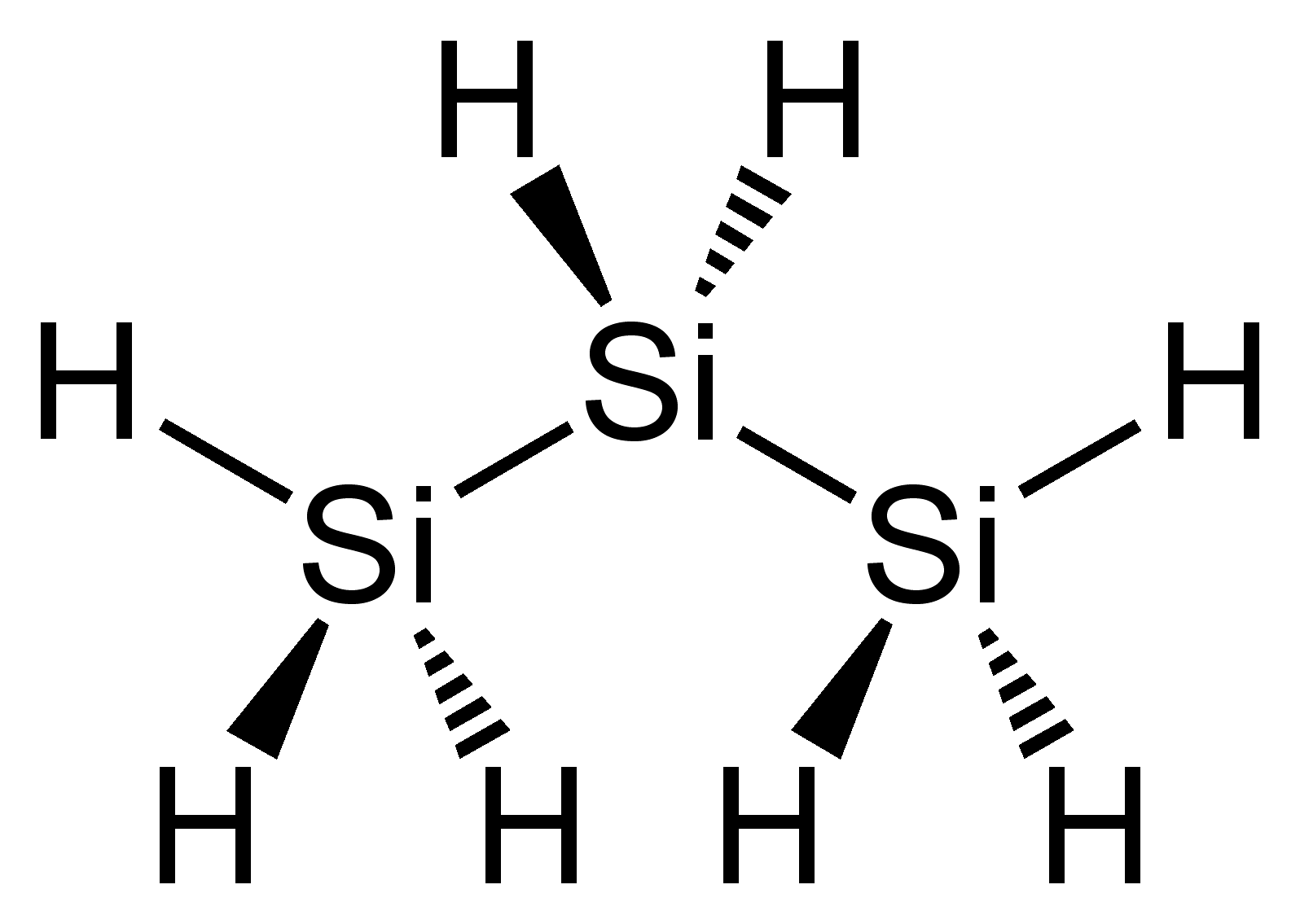 Structural formula of trisilane, Si3H8. Structure drawn in ChemBioDraw Ultra 12.0.